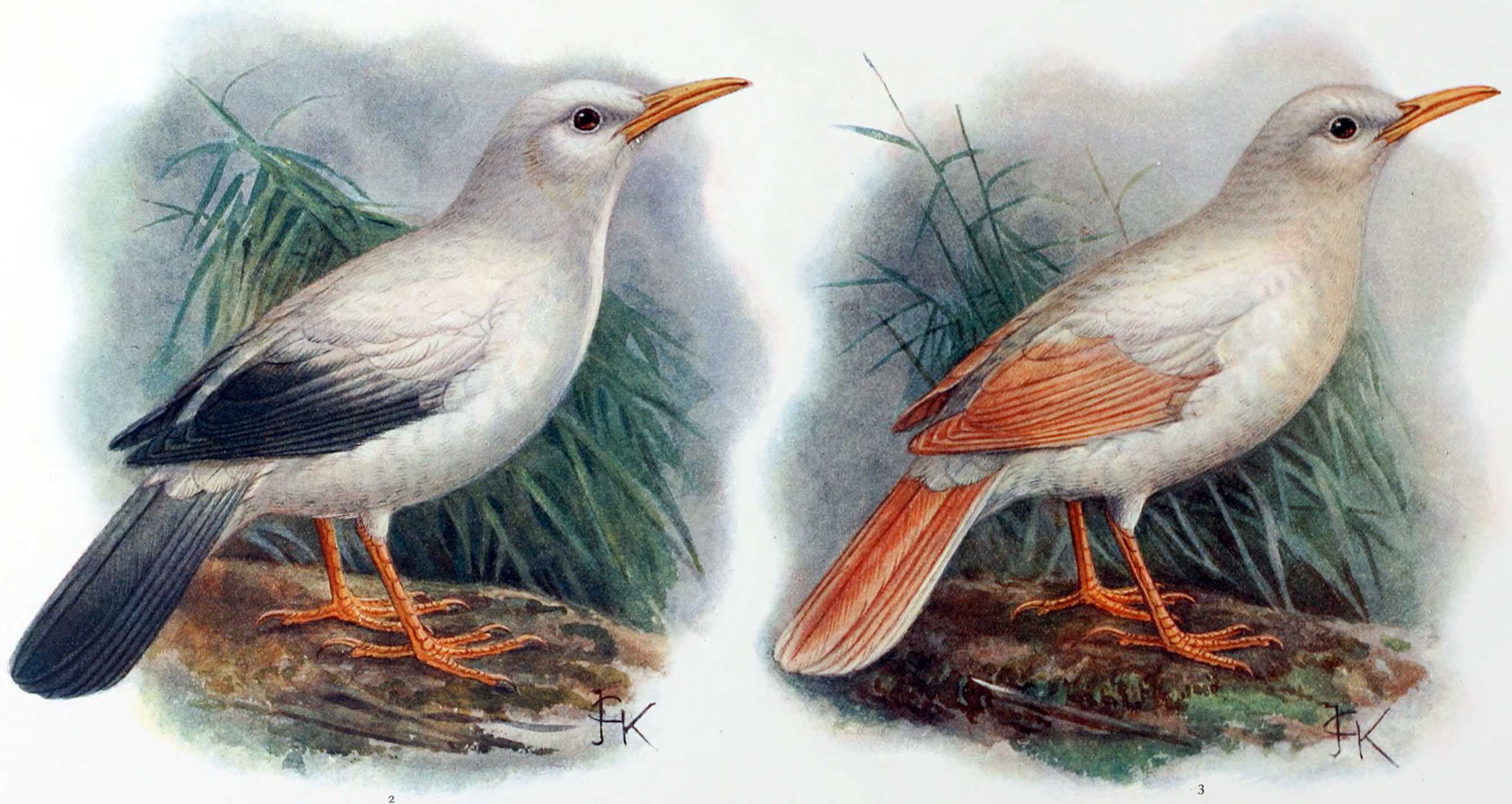 Necropsar rodericanus (reconstruction partially based on "N. leguati") and Necropsar leguati = Cinclocerthia gutturalis.